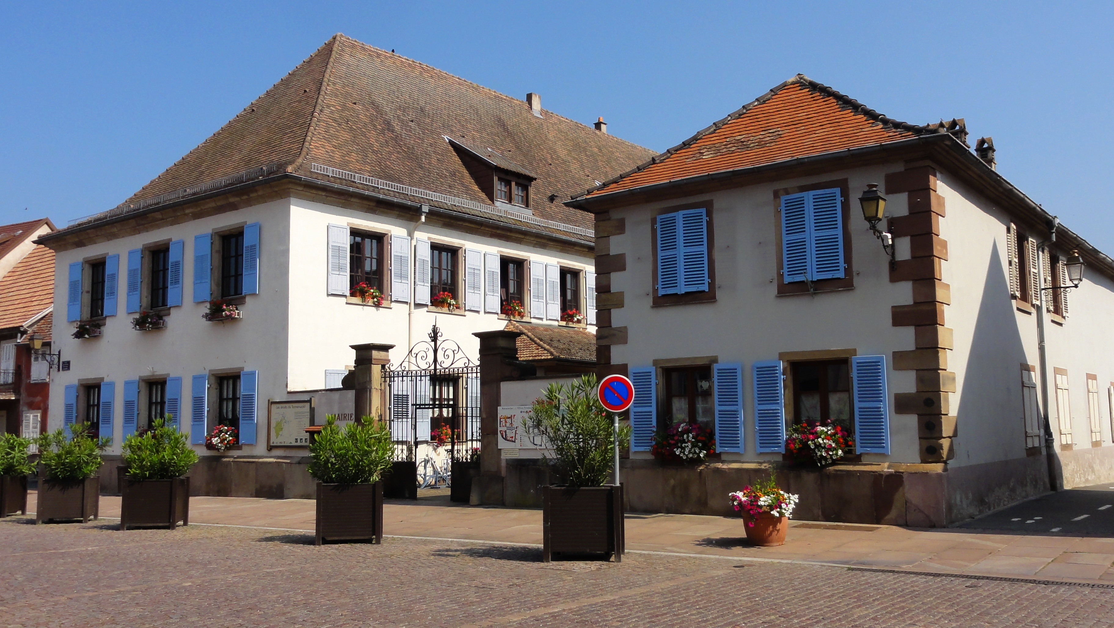 Alsace, Bas-Rhin, Marmoutier, Mairie dans un bâtiment de l'ancienne abbaye (XVIIIe), place du Général-de-Gaulle. This building is en partie classé, en partie inscrit au titre des Monuments Historiques. It is indexed in the Base Mérimée, a database of architectural heritage maintained by the French Ministry of Culture, under the references PA00084783 and IA67007714 .